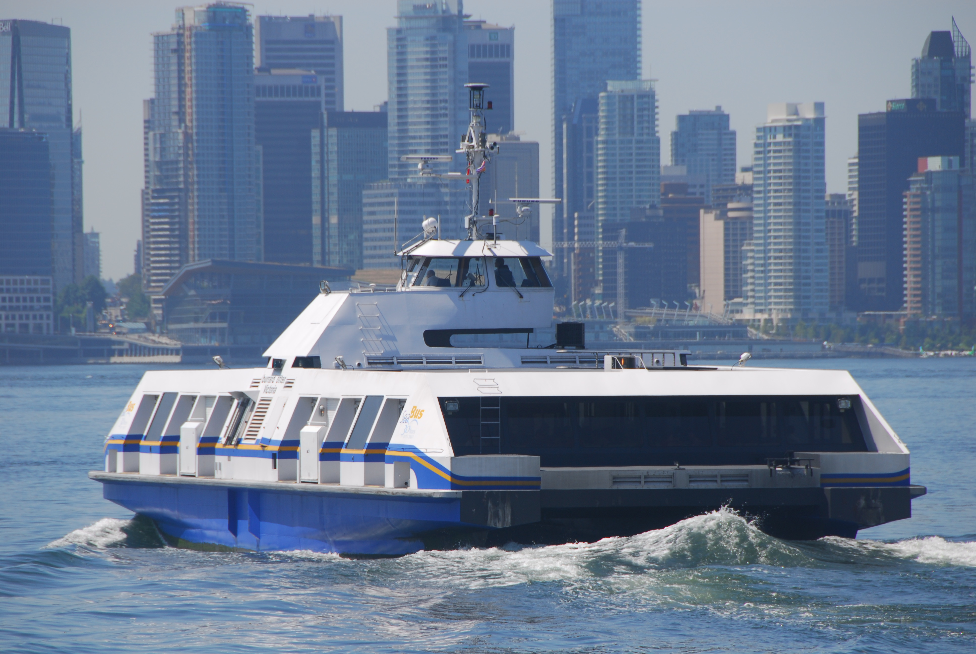 Burrard Otter Seabus